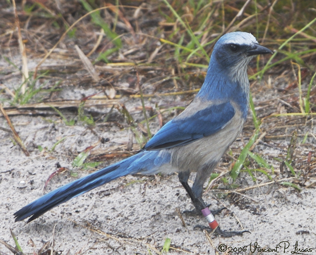 Florida Scrub-Jay (Aphelocoma coerulescens -- Family: Corvidae). Oscar Scherer State Park, Osprey, Sarasota Co., Florida 11/16/2006